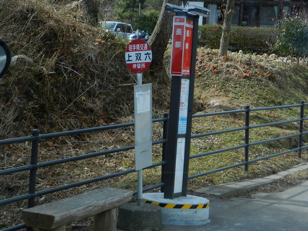 JR East Ofunato Line BRT Osabe Station and Iwateken Kotsu Kami-Sugoroku bus stop